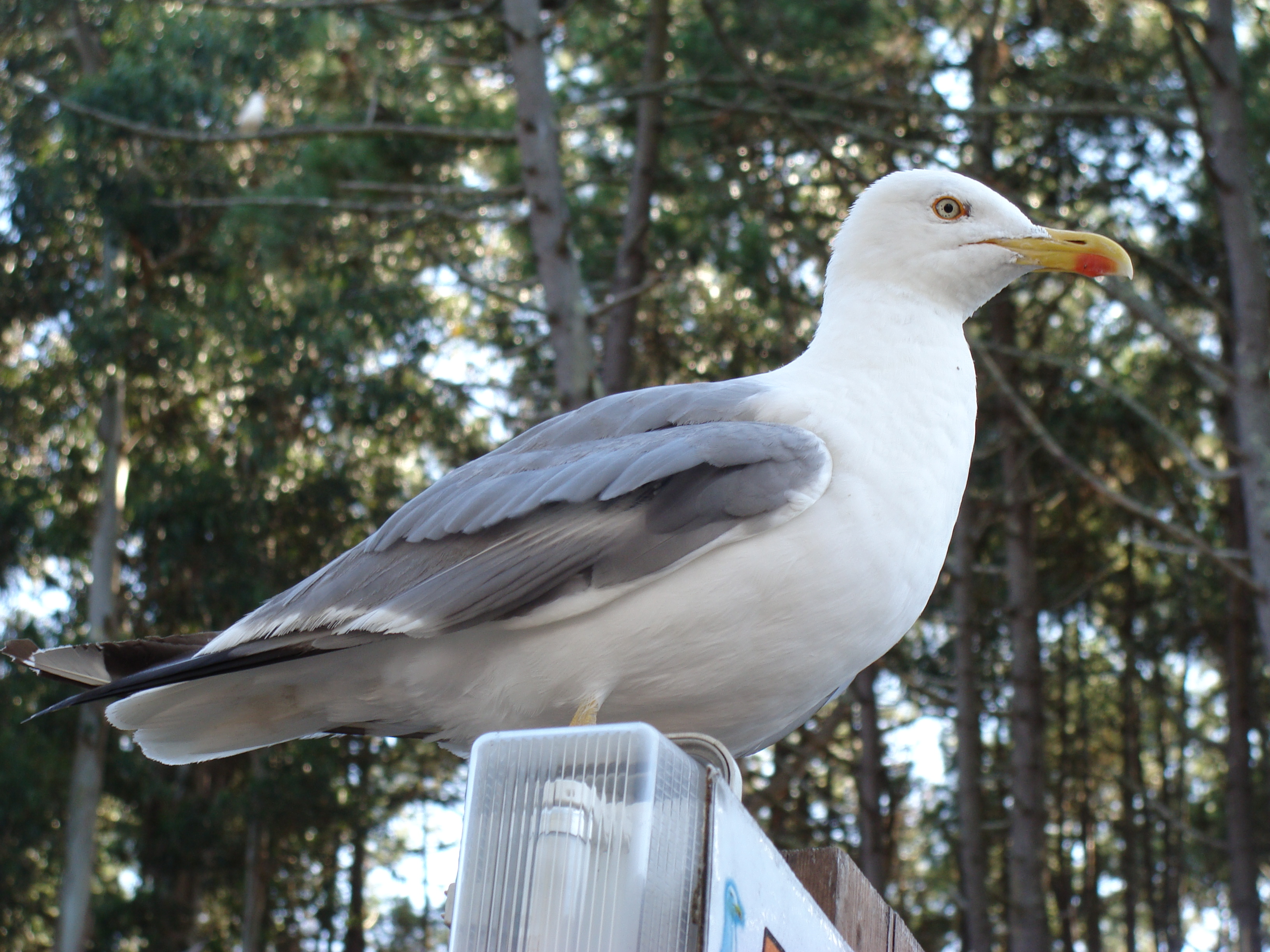 Larus michahellis (Yellow-legged Gull) in Cíes Islands, Pontevedra, Galicia, Spain.